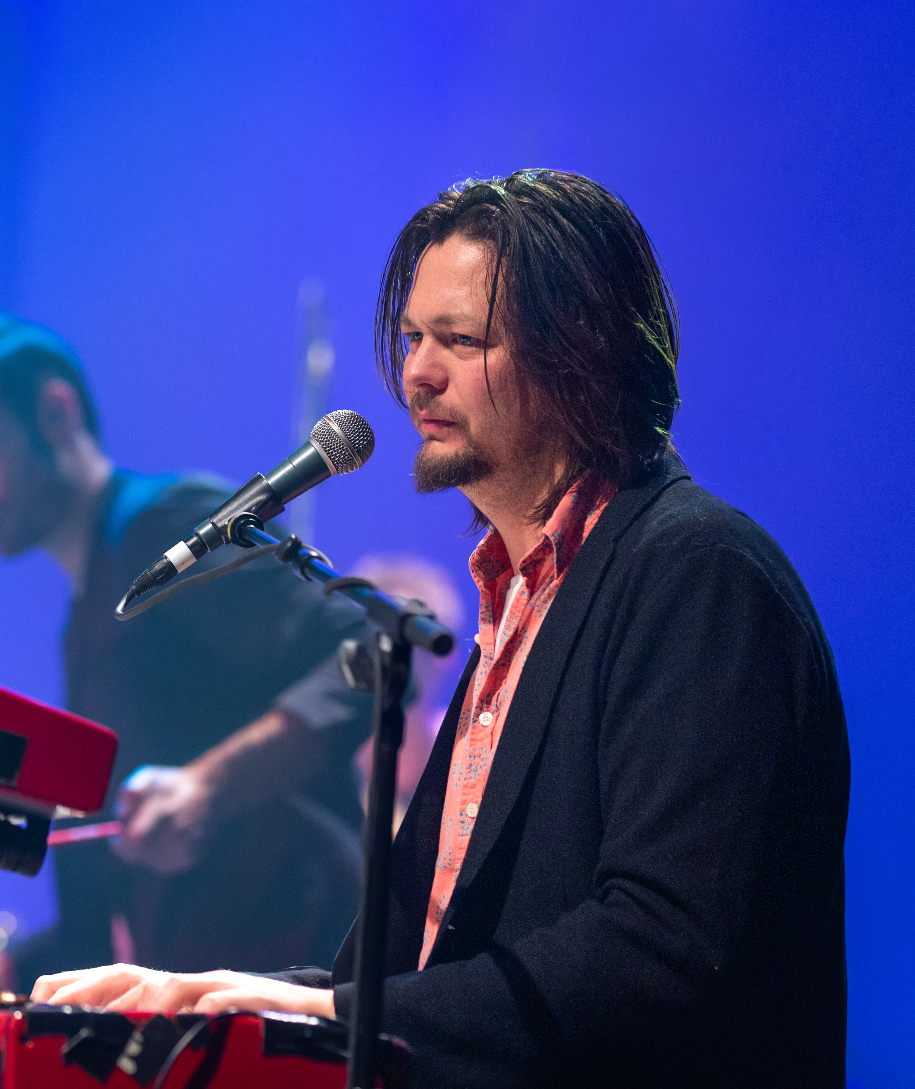 Ollie McGill is Australian musician who is the keyboard player and backing vocalist for The Cat Empire (concert in Toronto, March 2019)